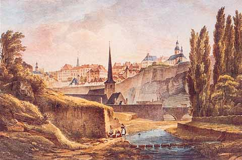 Luxembourg City. In the foreground: the Alzette river and the church of the Neumünster Abbey.